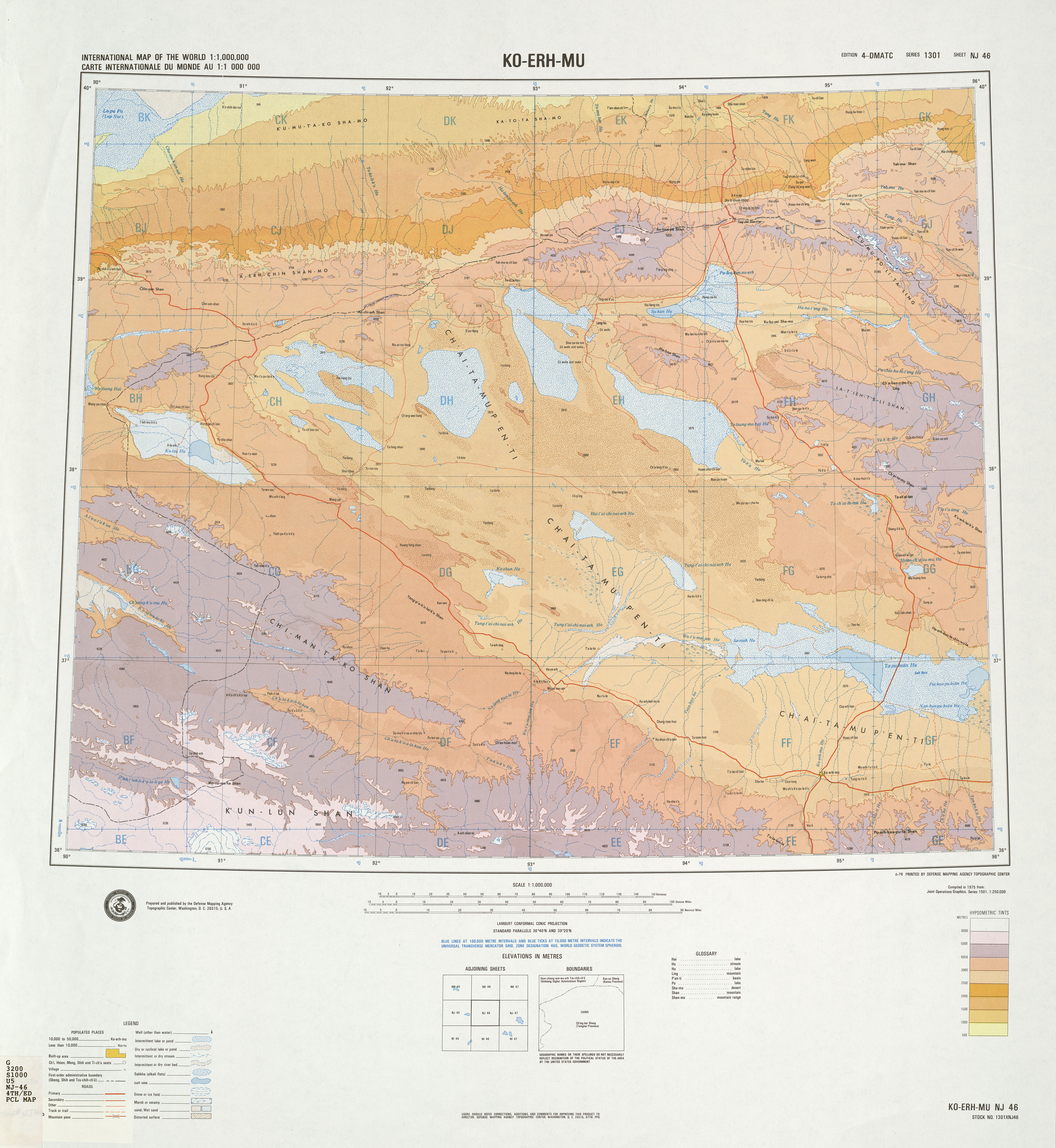 A map of the western Qaidam Basin in Qinghai, China. Names given in Chinese using Wade–Giles romanization. ("Ko-erh-mu" = Golmud.) Elevation given in meters above sea level.